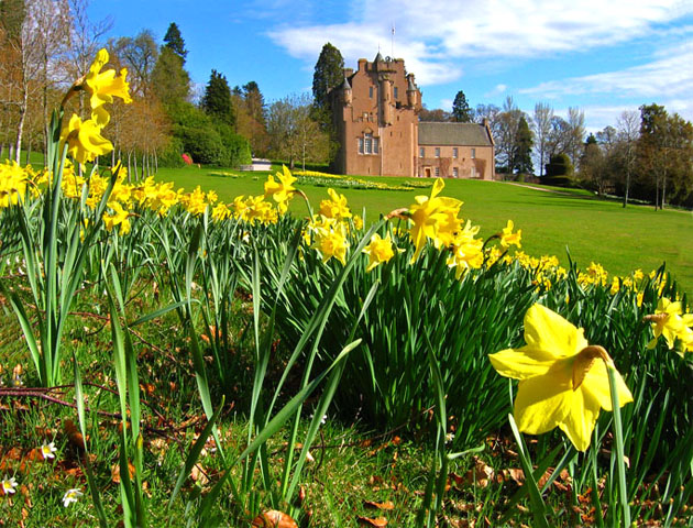 Crathes Castle There is always a lovely show of daffodils in spring time